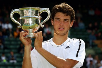 Bulgarian tennis player Grigor Dimitrov as a Wimbledon youth champion in 2008